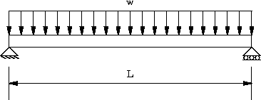 Loading of a beam.